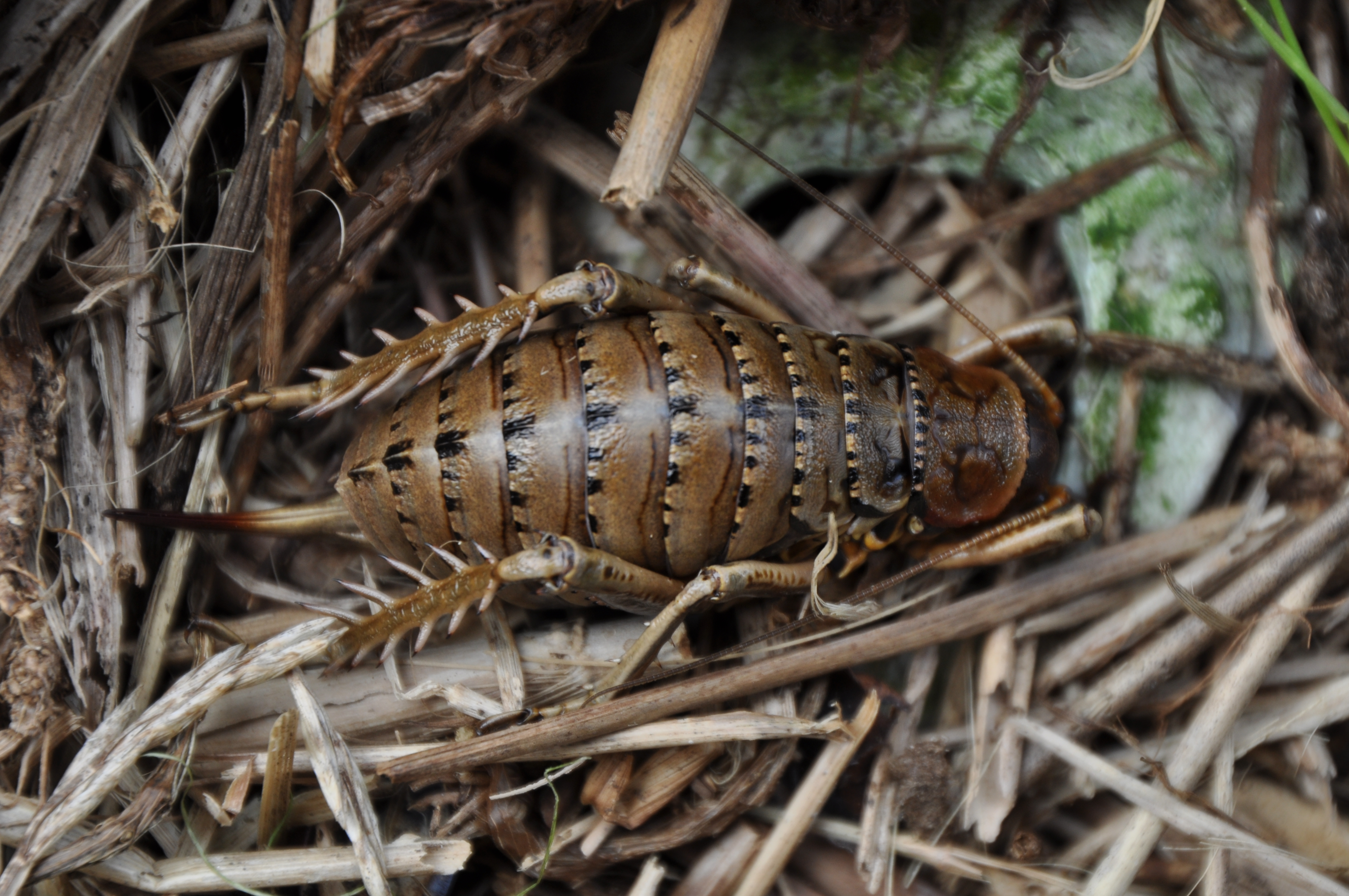 Giant wētā found on Tihaka/Pig Island during a 2011 survey.